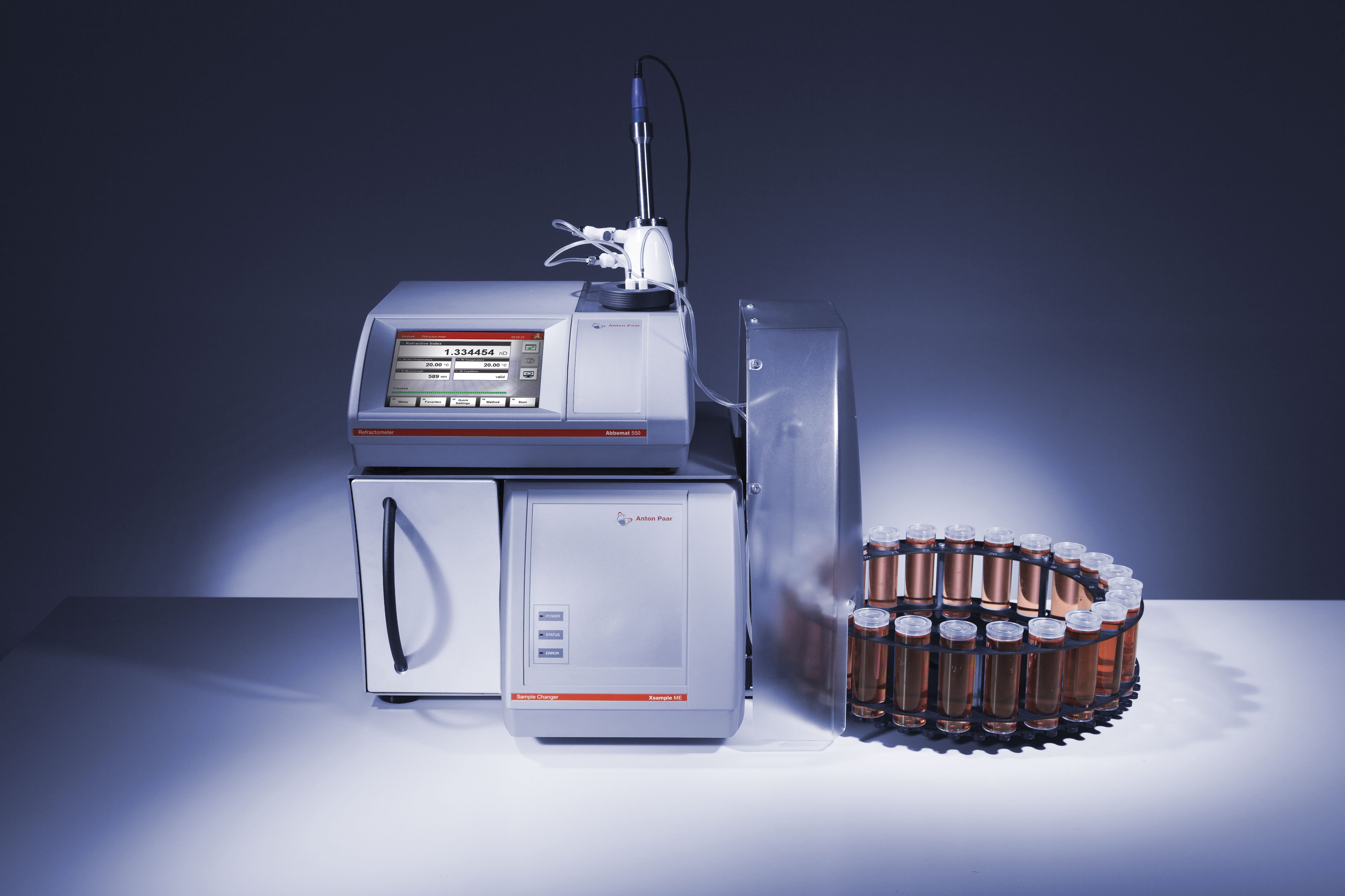 Automatic Refractometer with sample changer and pH sensor module